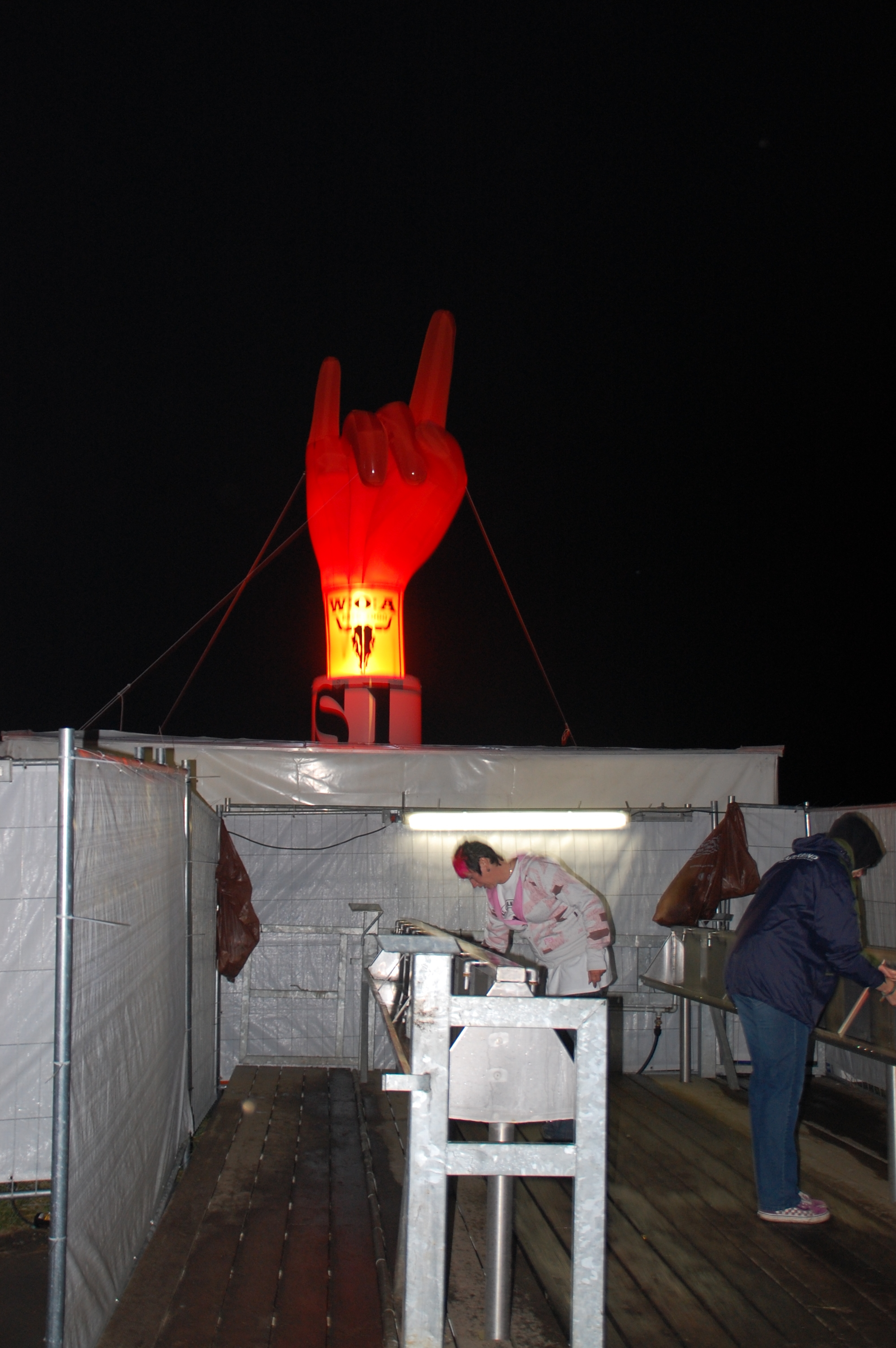 Wacken Open Air 2011, impression